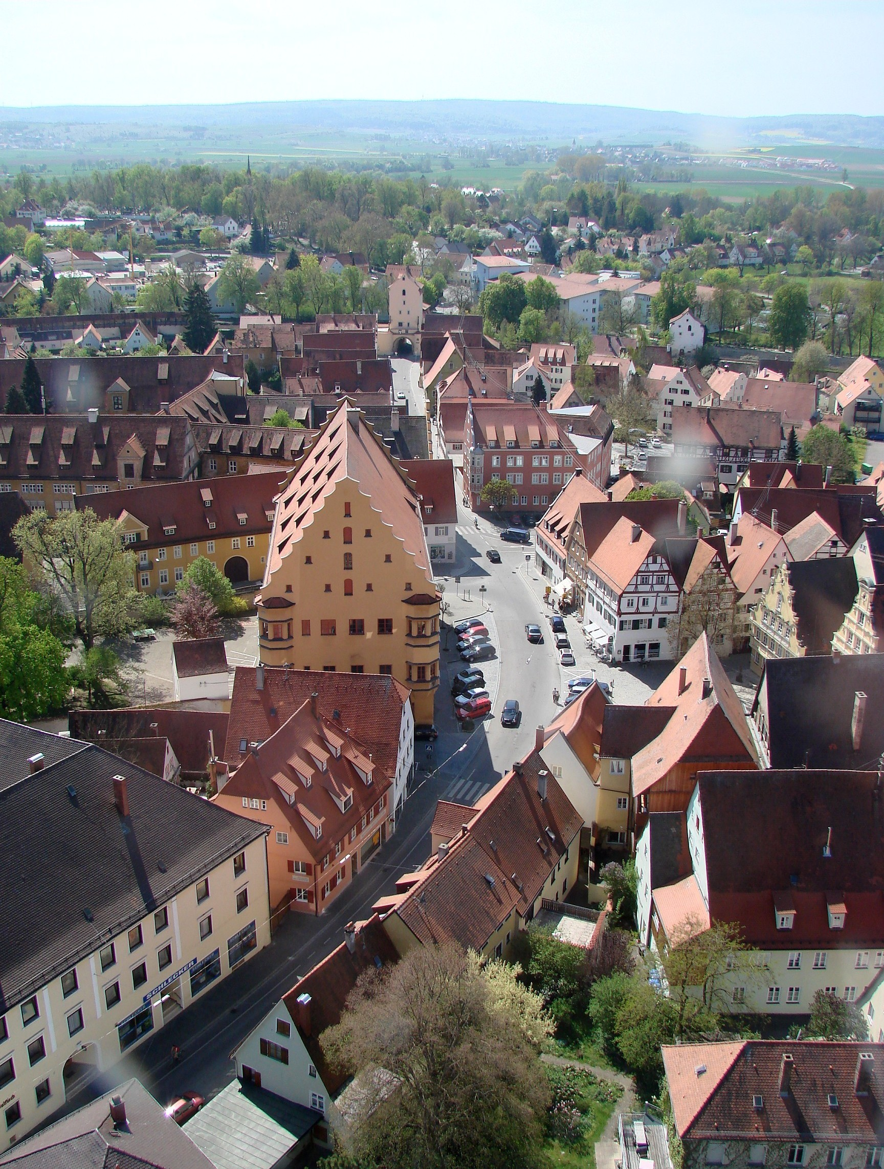 Nördlingen, Germany, view from the church tower to the wine market, the Hallgebäude (salt house) and the Berger Tor